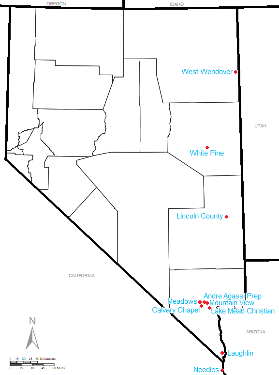 Southern Nevada 2A Region league map, with school locations placed on a map available courtesy of the U.S. Census.